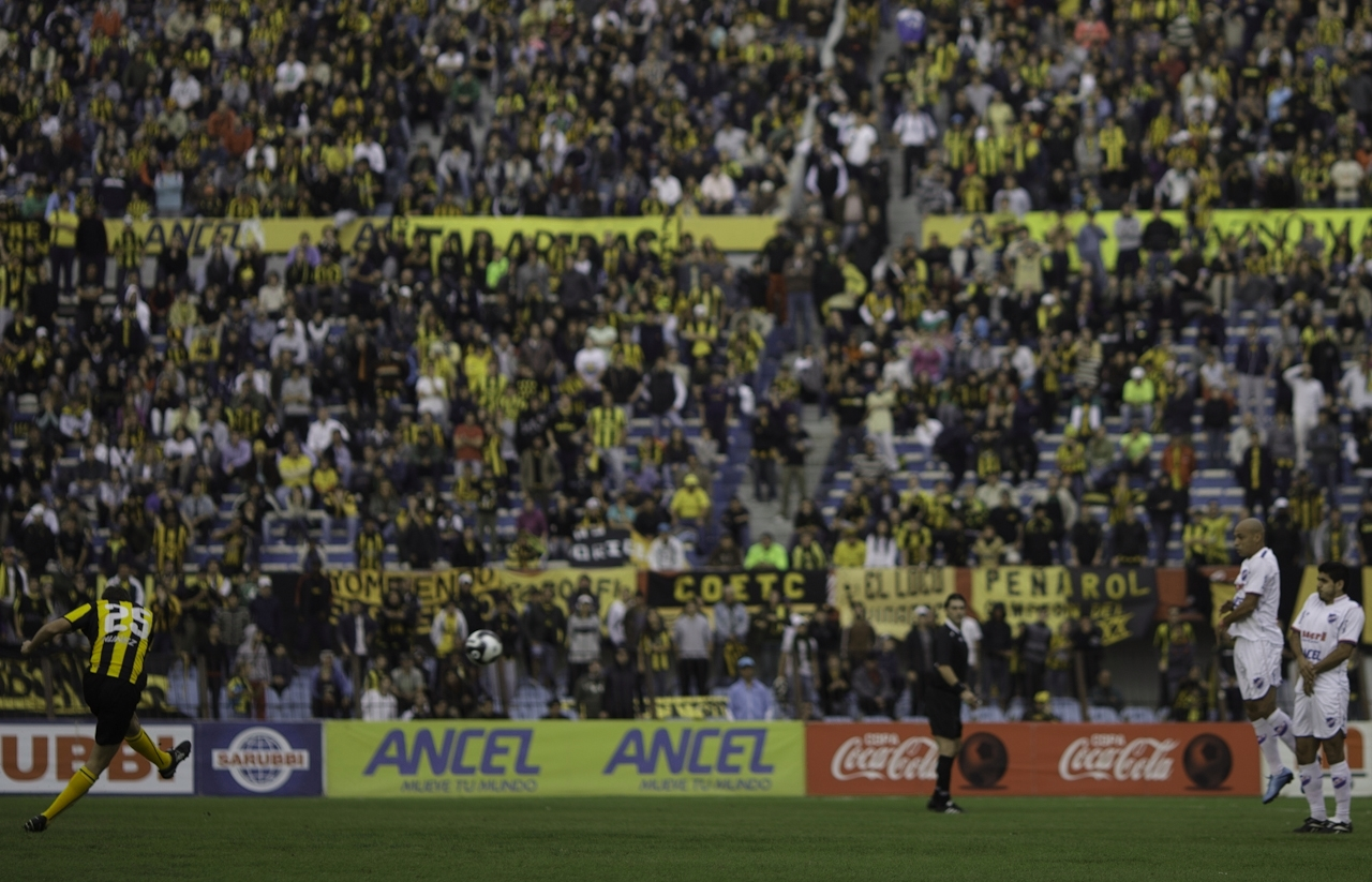 Peñarol player, Gaston Ramirez, during a free kick in the second uruguayan championship final against Nacional.